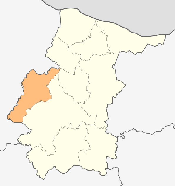 Map of Krivodol municipality, Vratsa Province